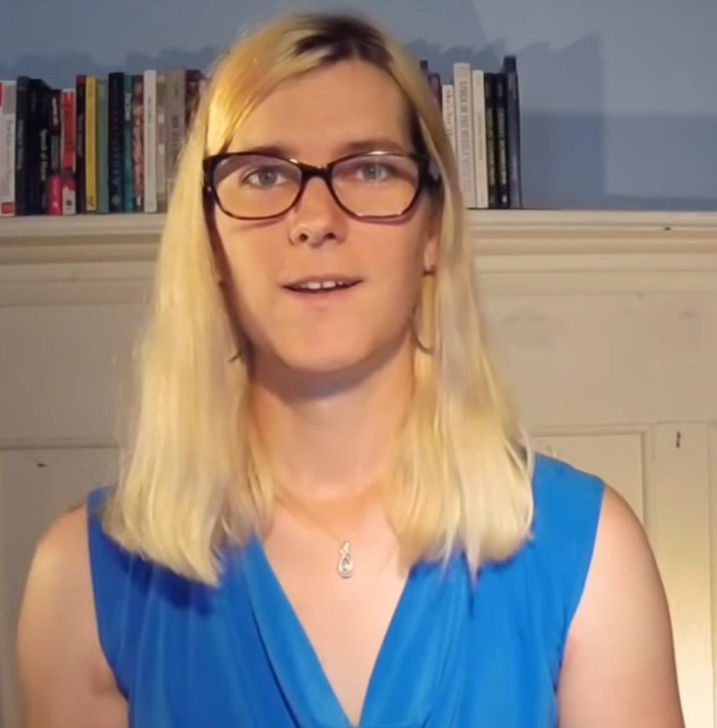 I offer some thoughts on how to think about whether including trans women in competitive sport is 'fair.' The IOC Principles of Olympism establish participation in sport as a human right; they also prohibit discrimination in various forms. I suggest that excluding trans women constitutes prima facie discrimination and does NOT meet the standard required to justify such discrimination. I also suggest some ways to think about 'fairness' in sport, and that including trans women in sport is consistent with fair competition. In a future video, I will go into more detail about the physiology of trans athletes as it connects to the fairness question.